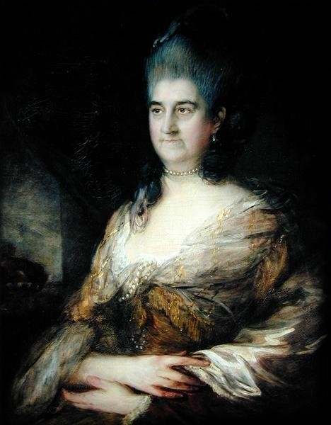 Portrait of an Old Lady (said to be Elizabeth, Duchess of Kingston)